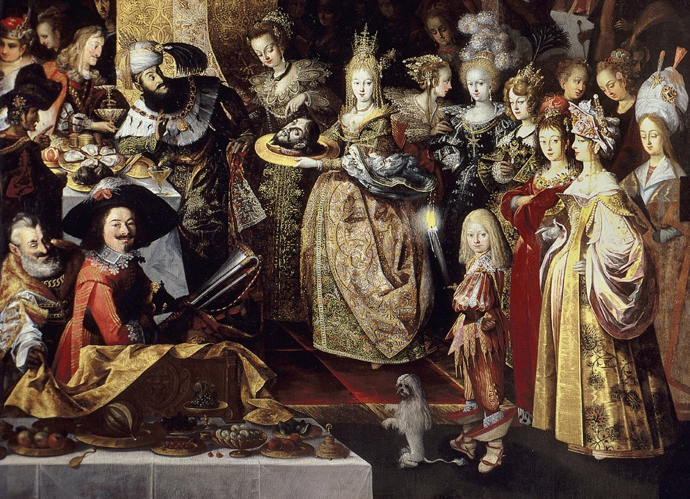 Bartlomiej Strobel: Feast of Herod with the Beheading of St John the Baptist Artist Bartlomiej Strobel (1591–1647) Alternative names Bartłomiej Strobel, Ströbel, Strubel, StroblDescriptionGerman-Polish painterDate of birth/death 11 April 1591 1647 Location of birth/death Wrocław ToruńWork periodBaroqueWork location Wrocław (1591-1634, 1636) Gdańsk (1618, 1634-1637), Elbląg (1637-1639), Toruń (1639-1647)Authority control : Q580102 VIAF: 64936310 ISNI: 0000 0000 5338 1346 ULAN: 500023218 LCCN: nr2002014499 GND: 124306411 WorldCat artist QS:P170,Q580102Title